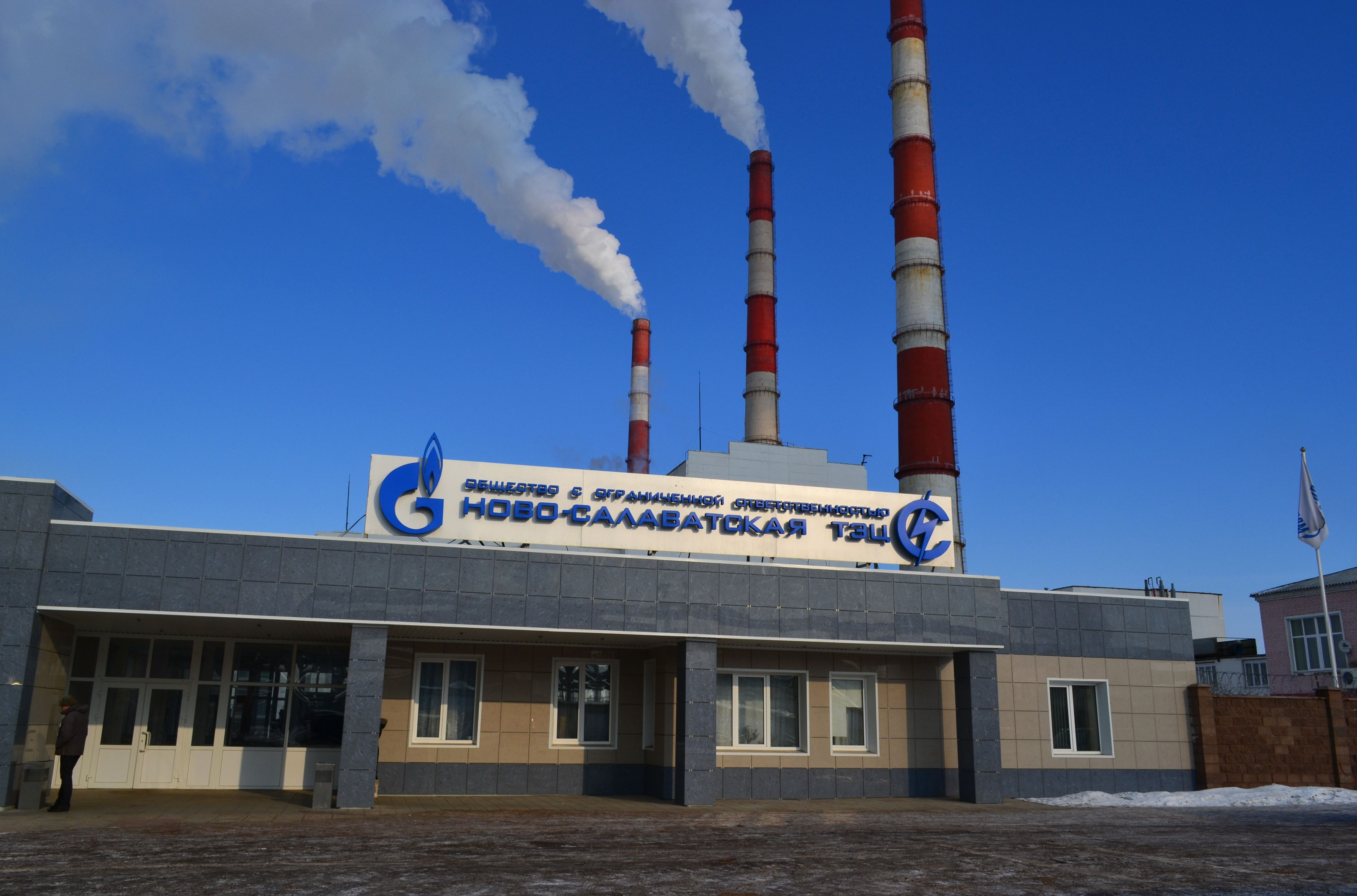 Новосалаватская ТЭЦ